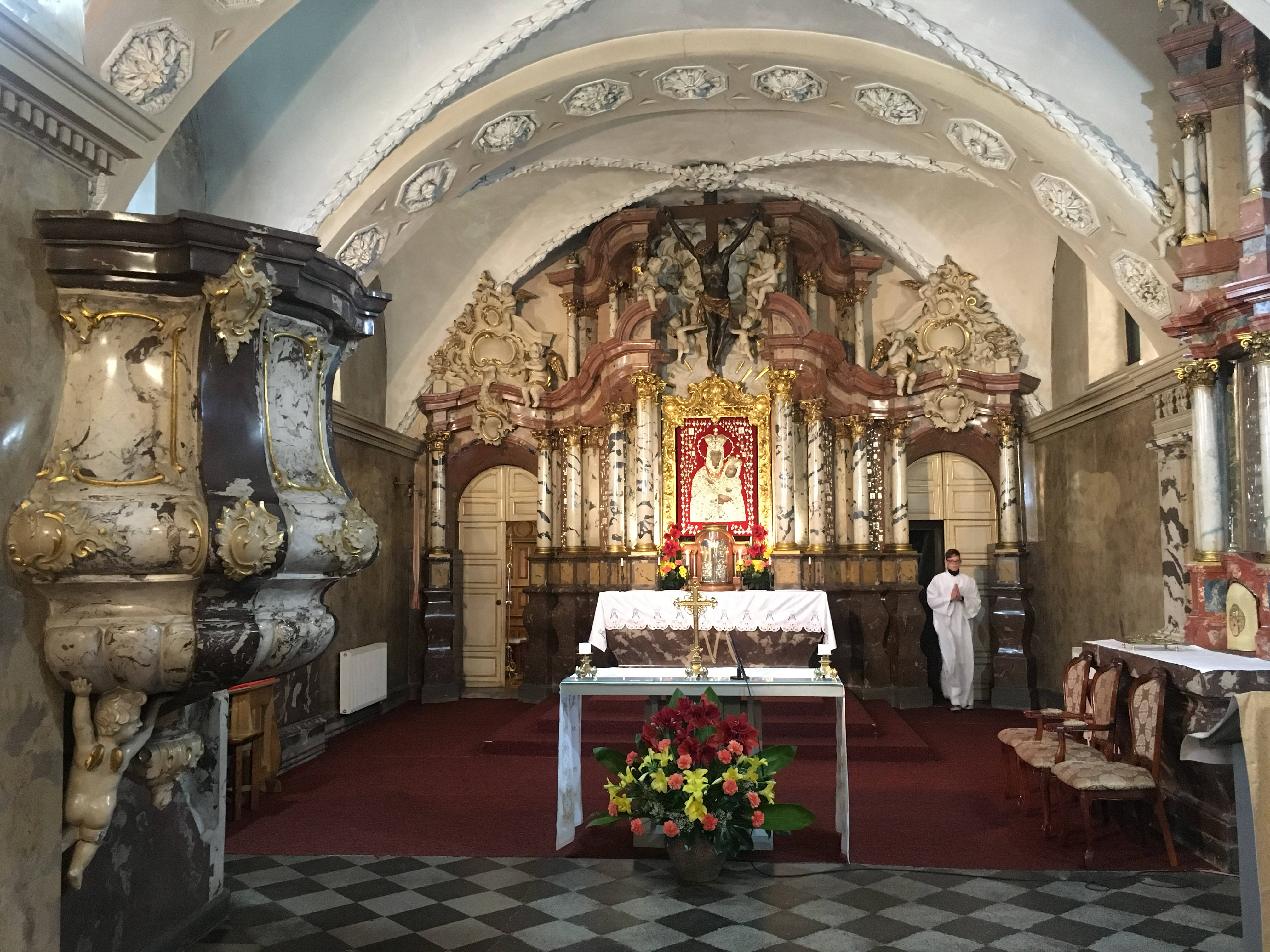 Interior of the Church of the Holy Cross in Vilnius, Lithuania